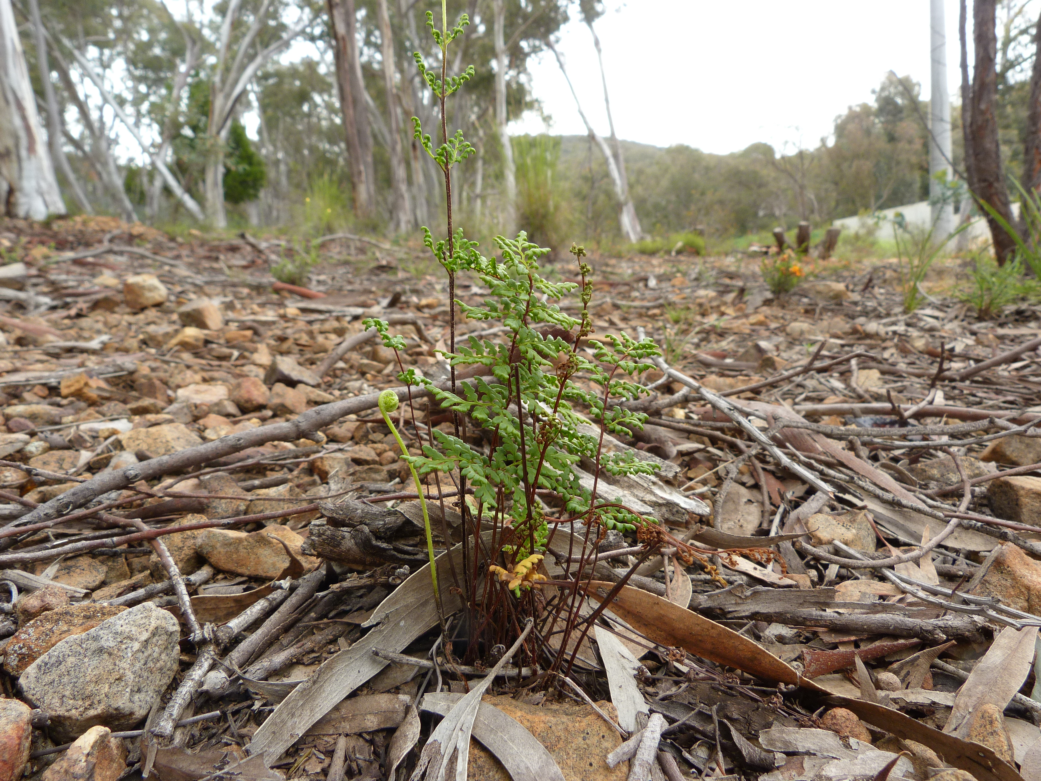 Cheilanthes austrotenuifolia H.M.Quirk & T.C.Chambers, Black Mountain, Canberra, ACT, 4 November 2010